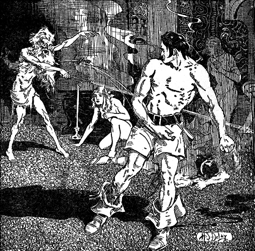 Illustration of a scene in Robert E. Howard's "Red Nails": this picture was first published in Weird Tales (October 1936, vol. 28, no. 3).